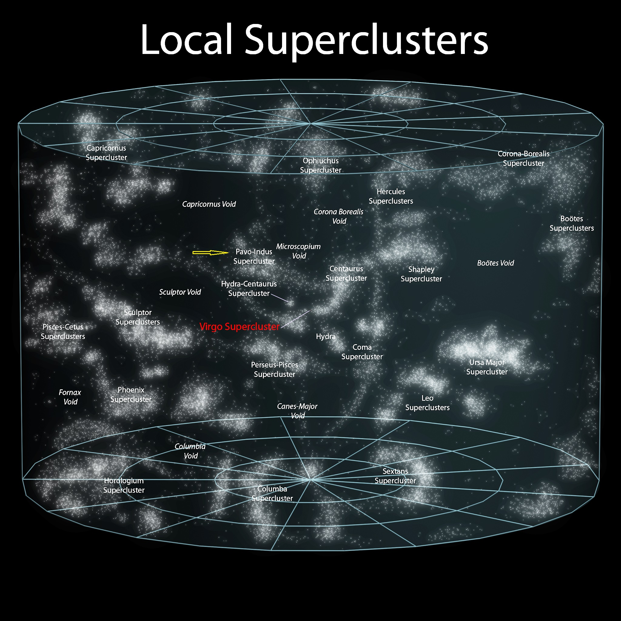 Pavo-Indus supercluster (yellow arrow)